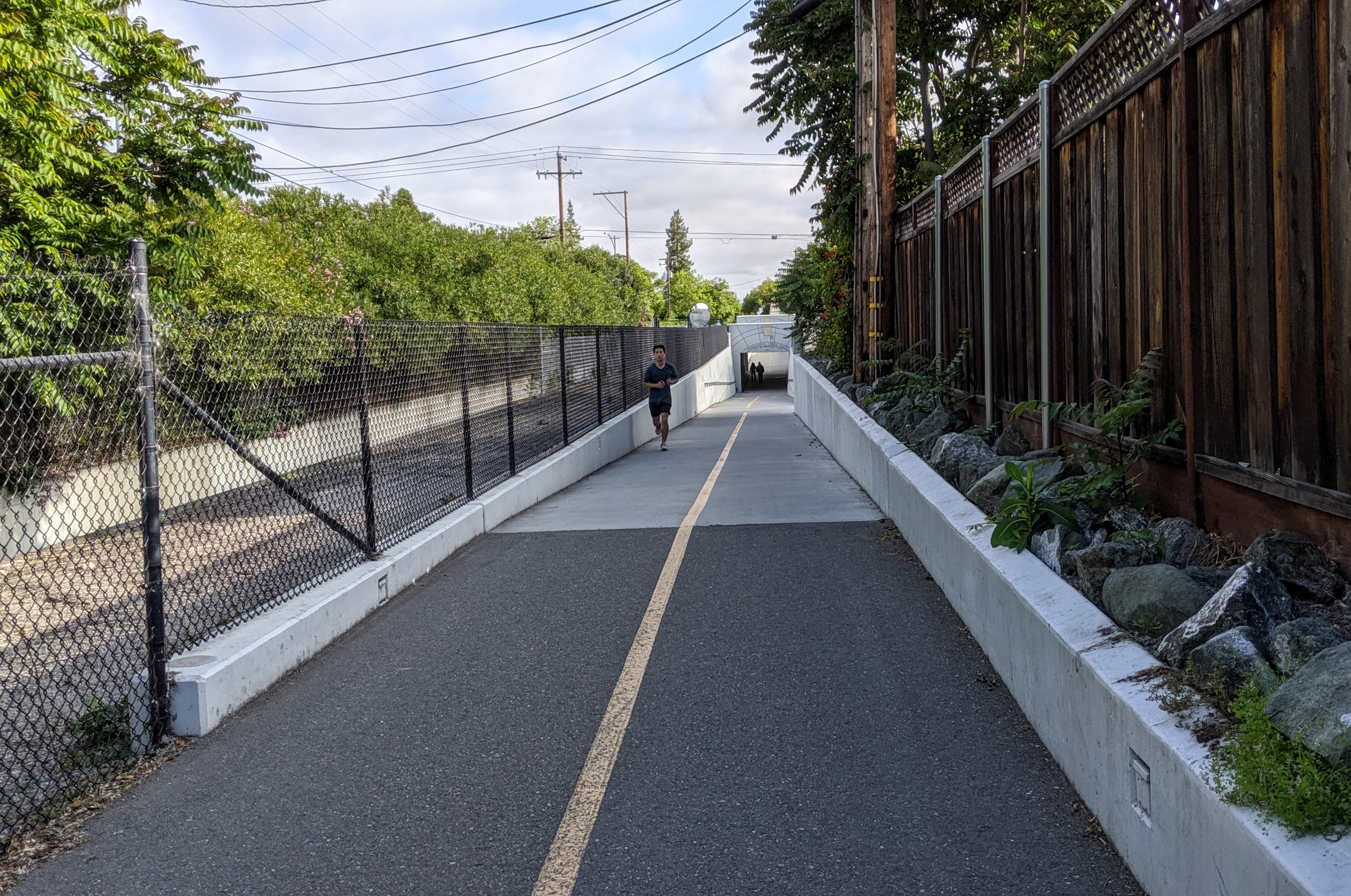 Permanente Creek Trail Old Middlefield Way underpass, Mountain View, California